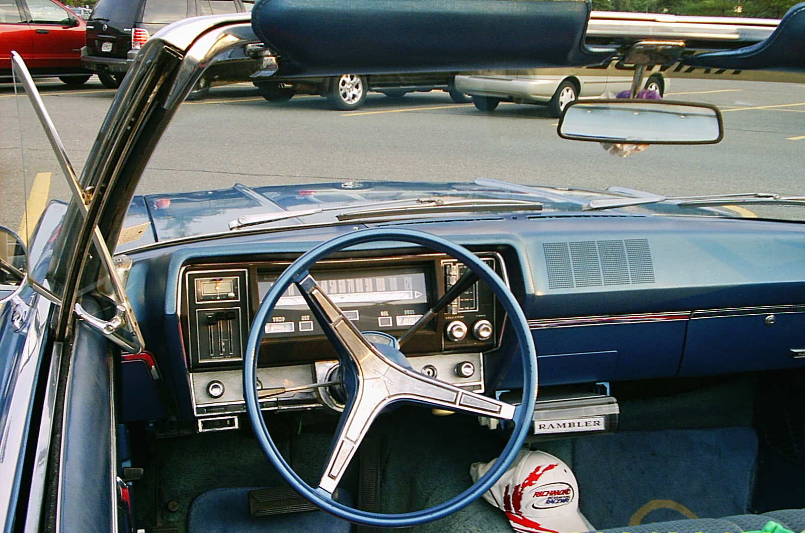 1967 American Motors (AMC) Rambler Rebel SST convertible with its top down. Finished in blue paint and standard blue vinyl interior. Photograph taken in Maryland.